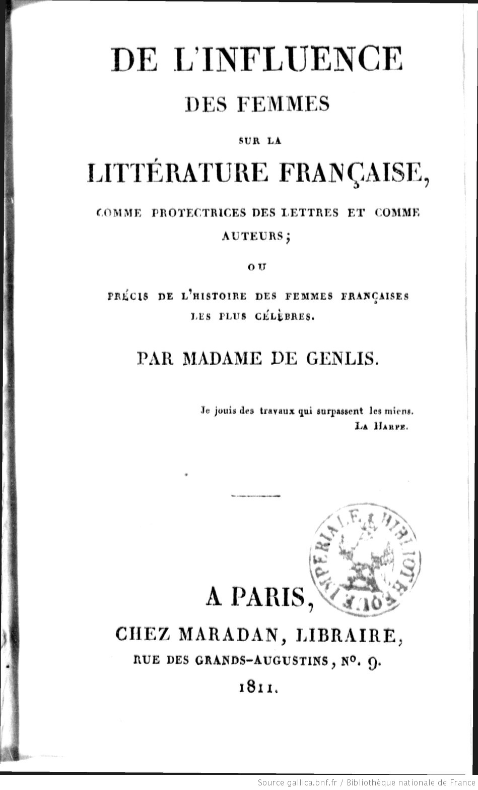 1st page of the book of Madame de Genlis: The influence of women on french literature